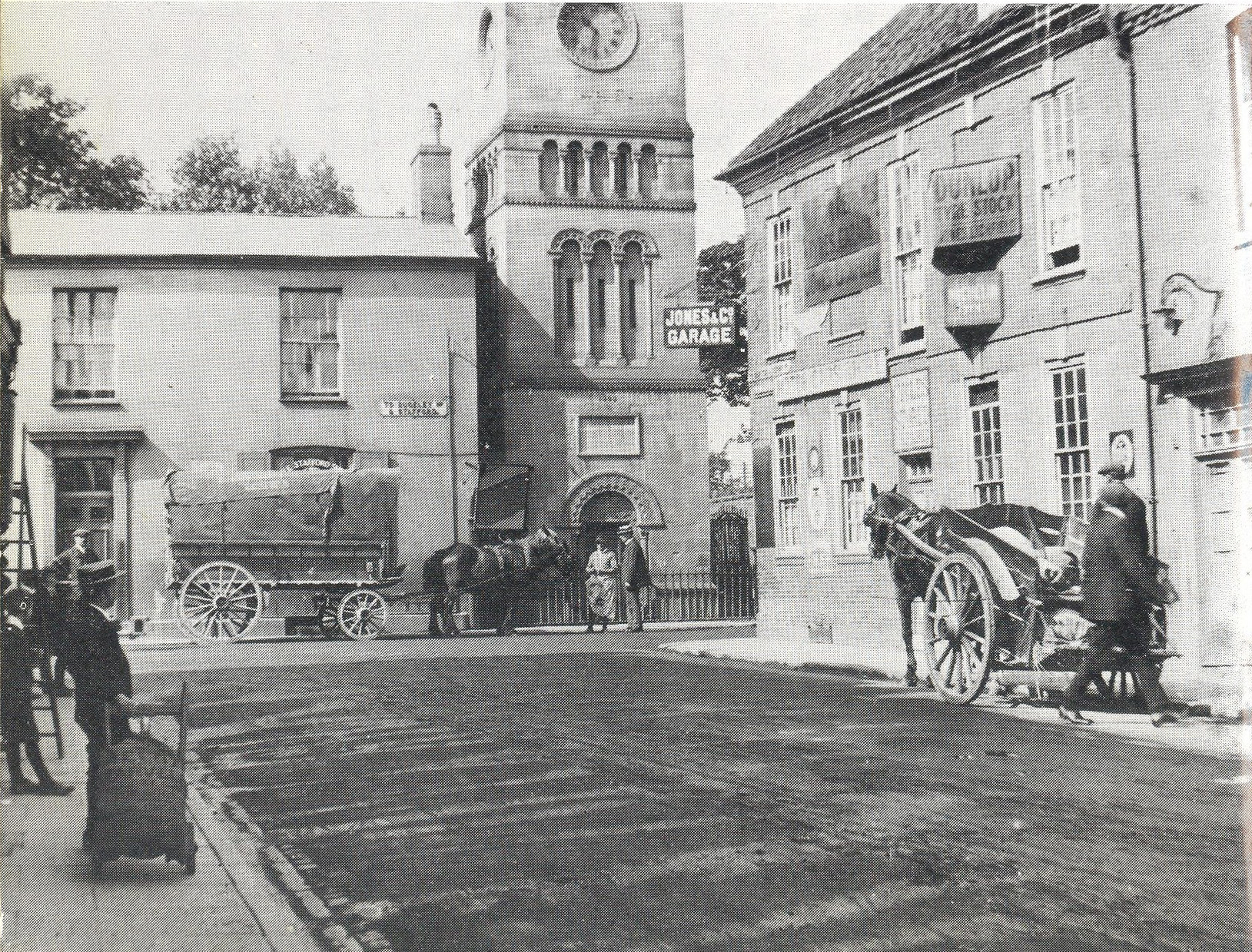 A photograph taken from Bore Street, Lichfield looking west at the former location of Lichfield Clock Tower.